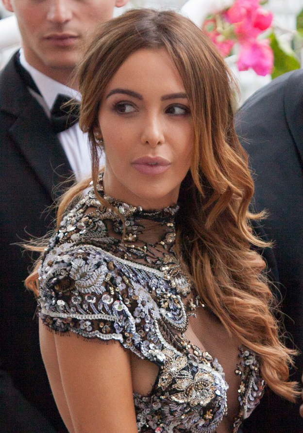 Nabilla Benattia at Cannes in 2018.